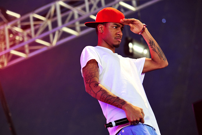 Southbound Festival 2011